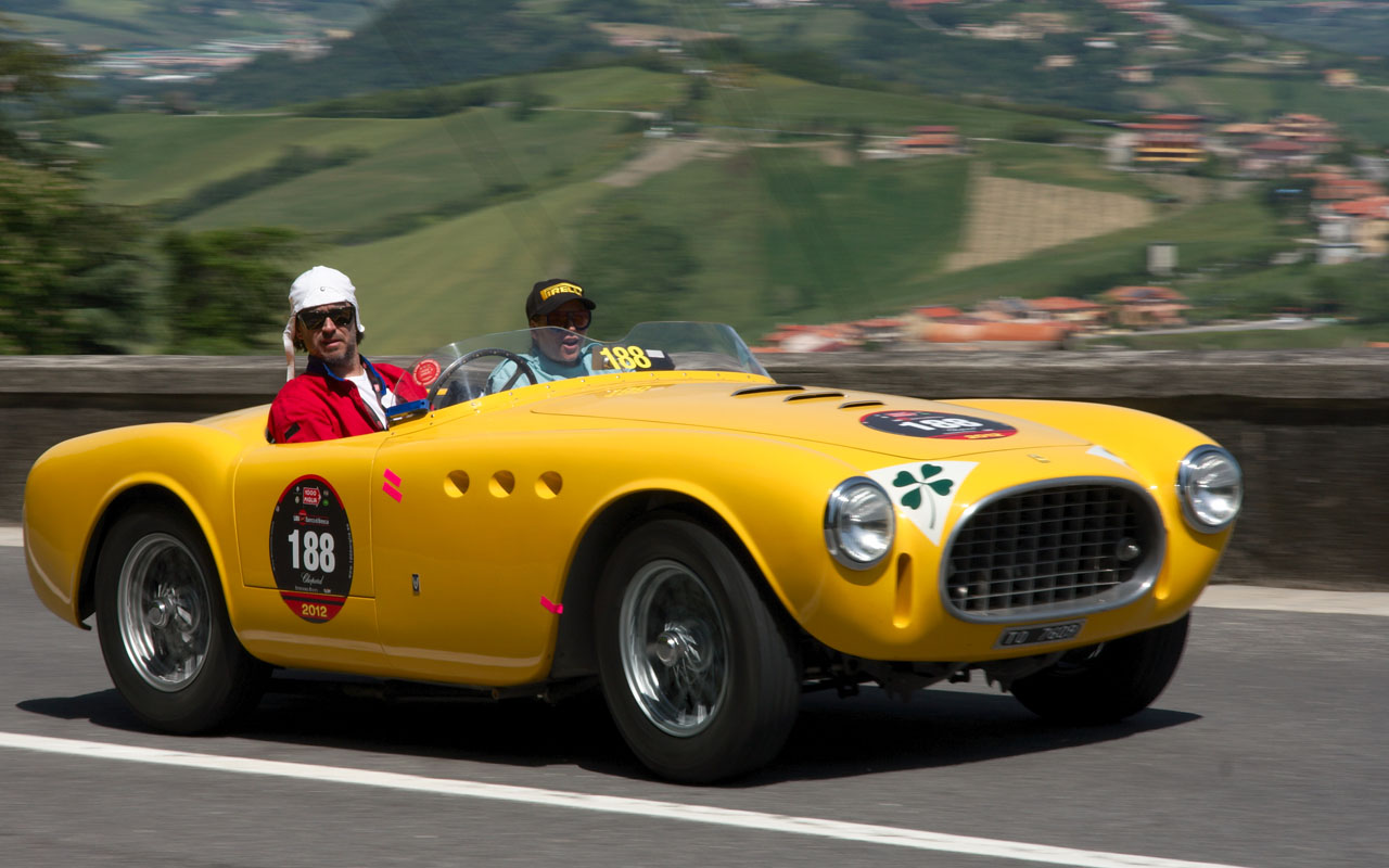 1952 Ferrari 225 Sport Vignale Spyder s/n 0198ET Tuboscocca. Team: Drivers: Marc Newson, Charlotte Stockdale. At the 2012 Mille Miglia